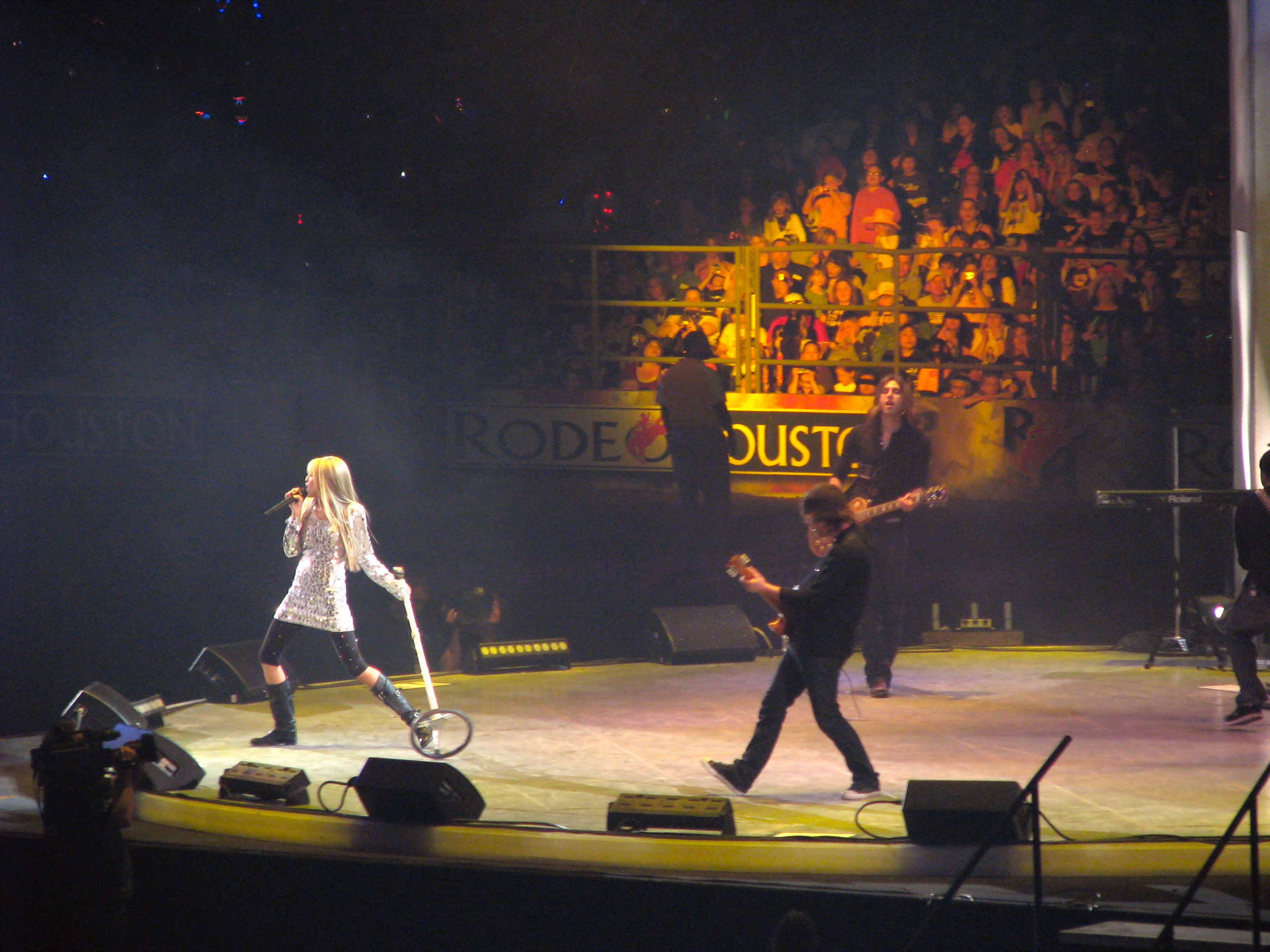 A teen singing.